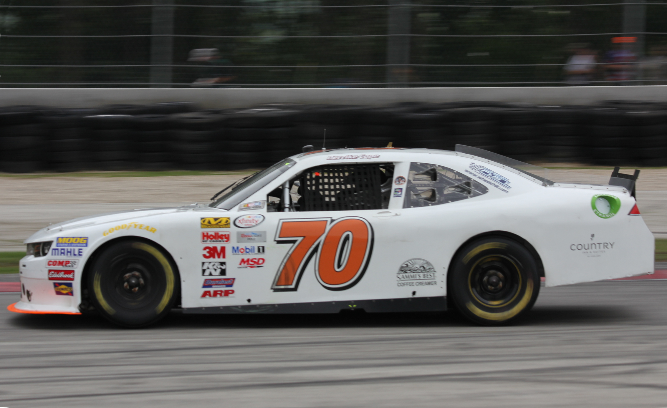 The NASCAR Xfinity Series car of Derrike Cope turning left in Turn 6 at Road America.